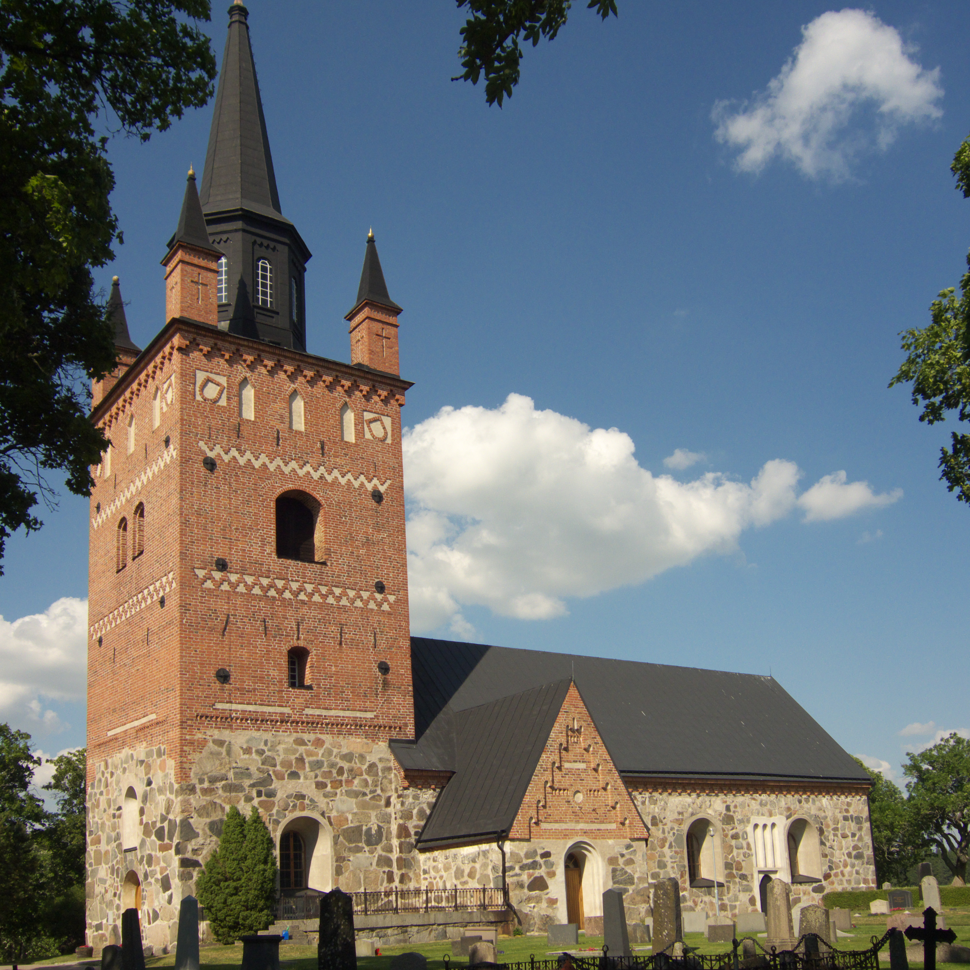 Björksta church